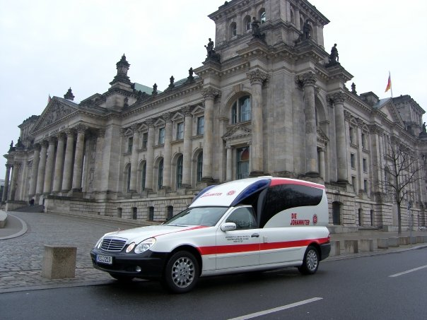 German Ambulance Car